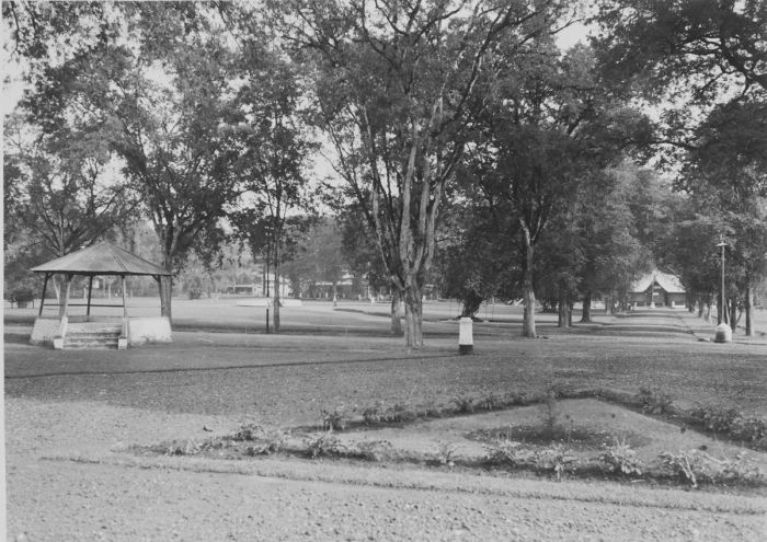 Photo. Alun-alun, Fort van der Capellen